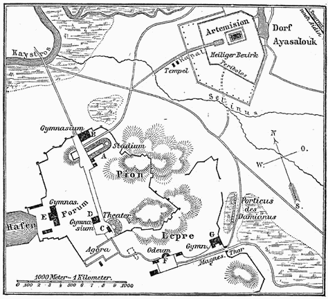 Map of Ephesus on coast of Turkey, printed circa 1888. The labels are in